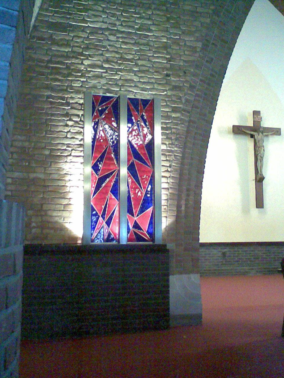 Glass Artwork in Church of Milsbeek (Province Limburg, The Netherlands)